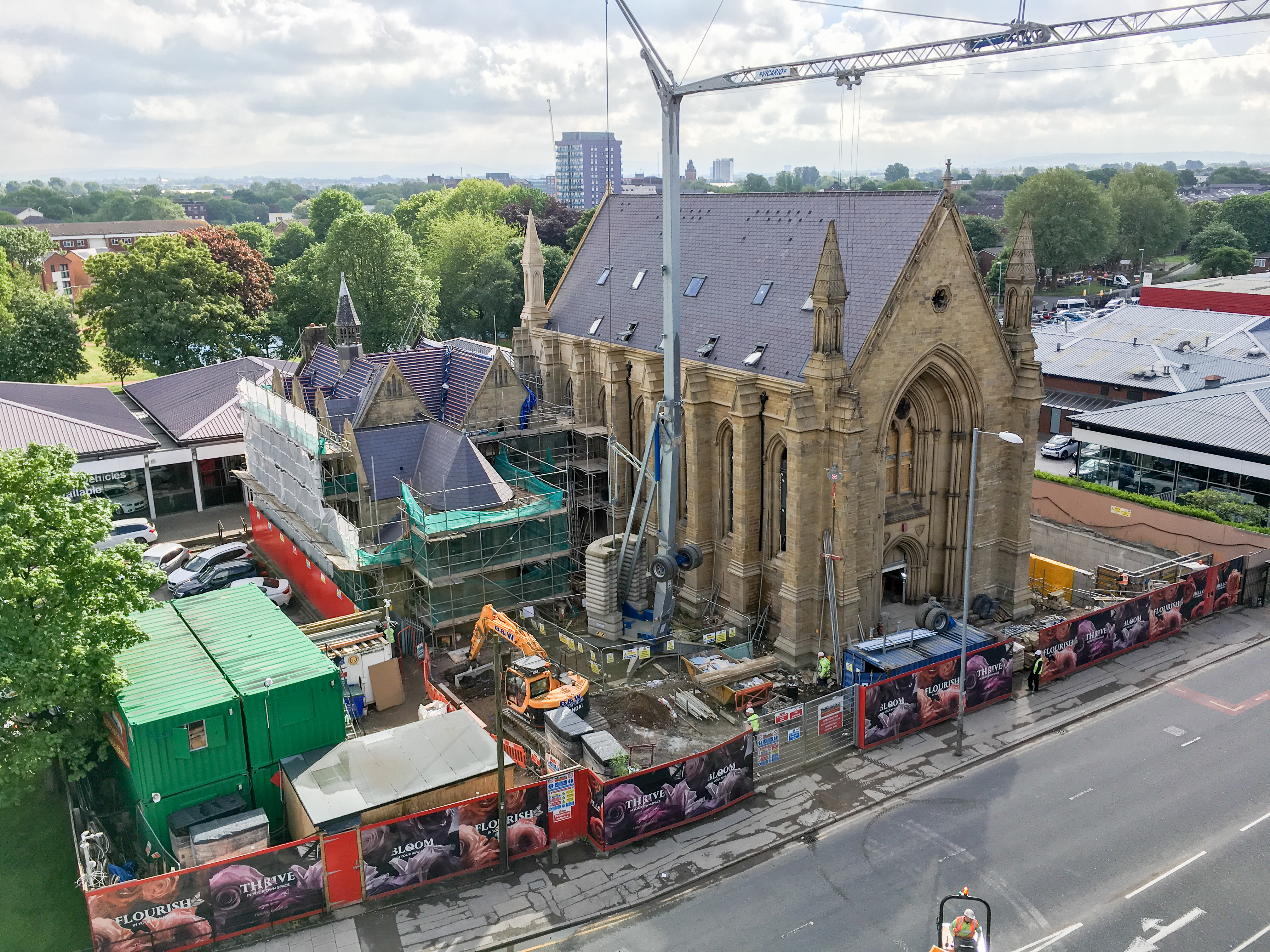 Upper Brook Street Chapel, Manchester, United Kingdom